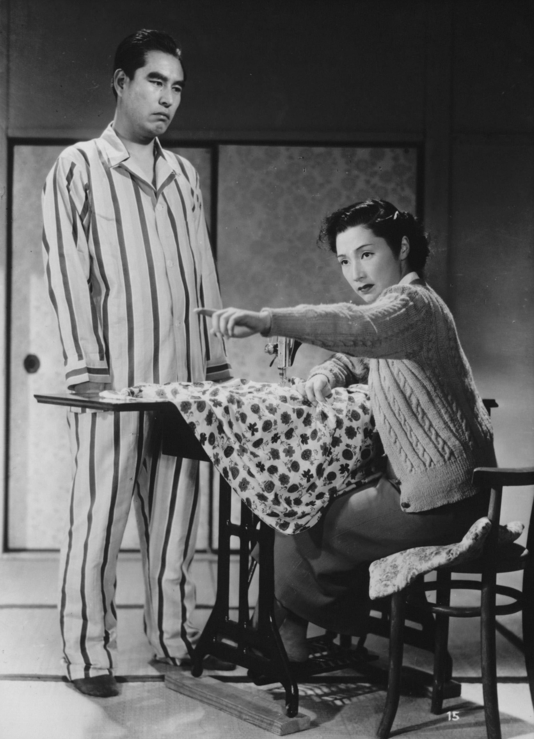 Shin Saburi and Mieko Takamine in Jiyū gakkō directed by Minoru Shibuya - 1951